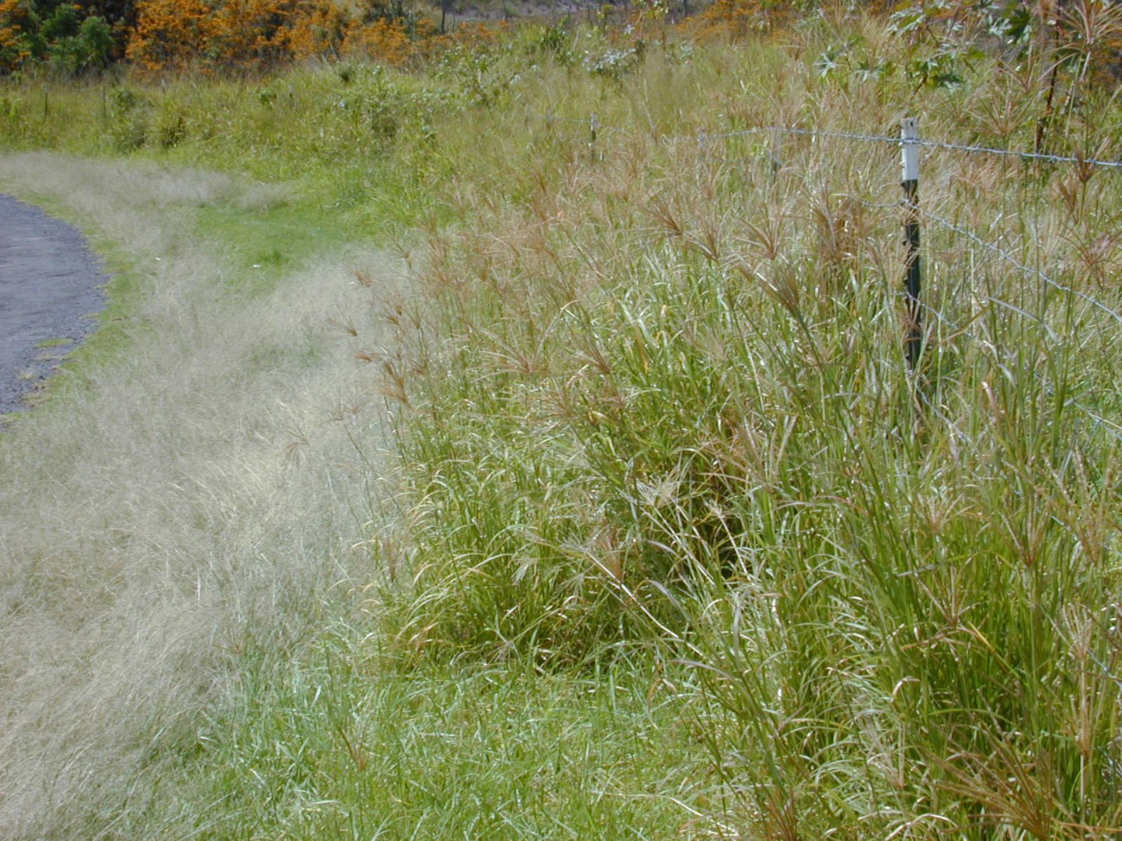 Chloris gayana (habit). Location: Maui, Kula